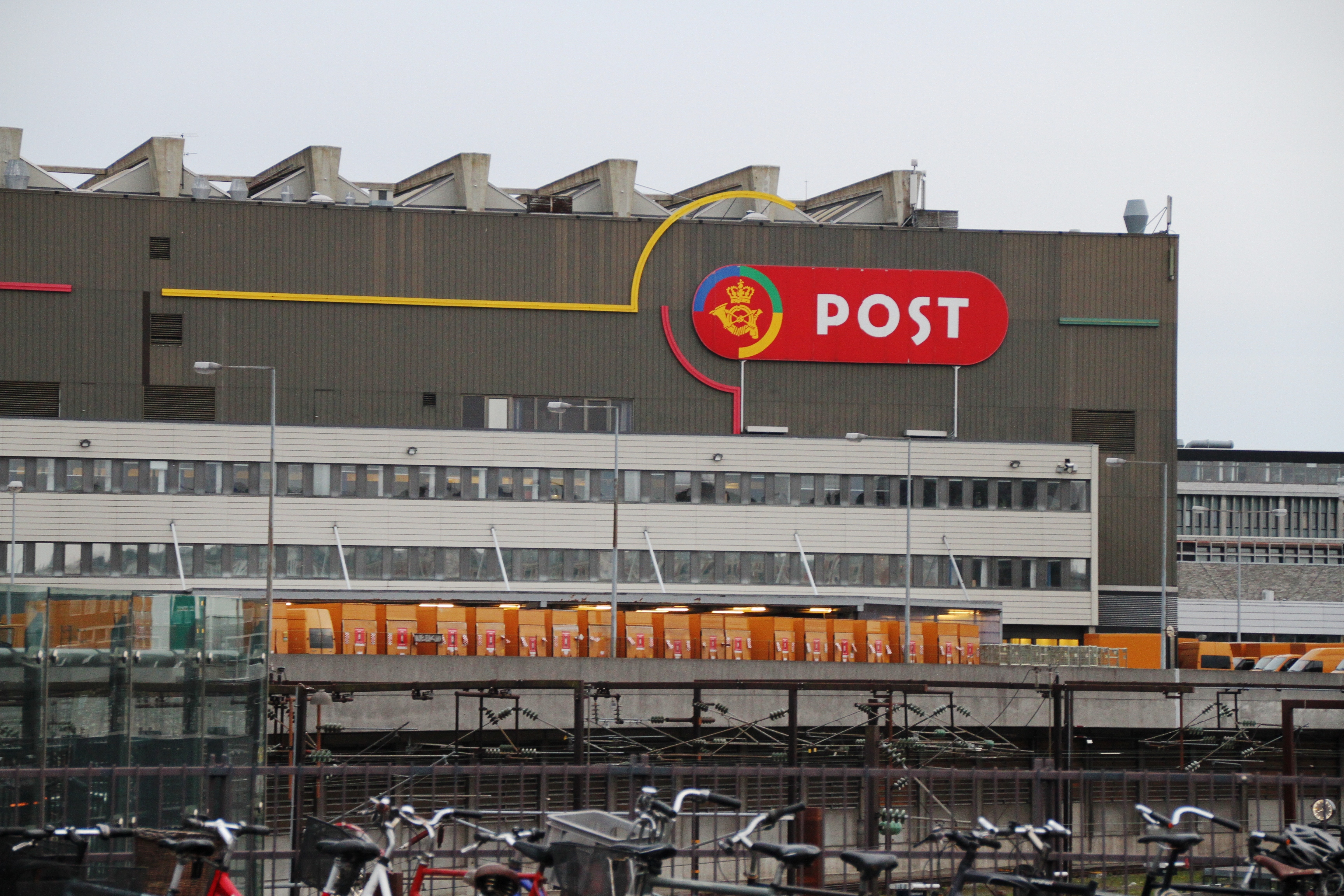 Image from Copenhagen, the capital of Denmark. This is the central Post terminal.